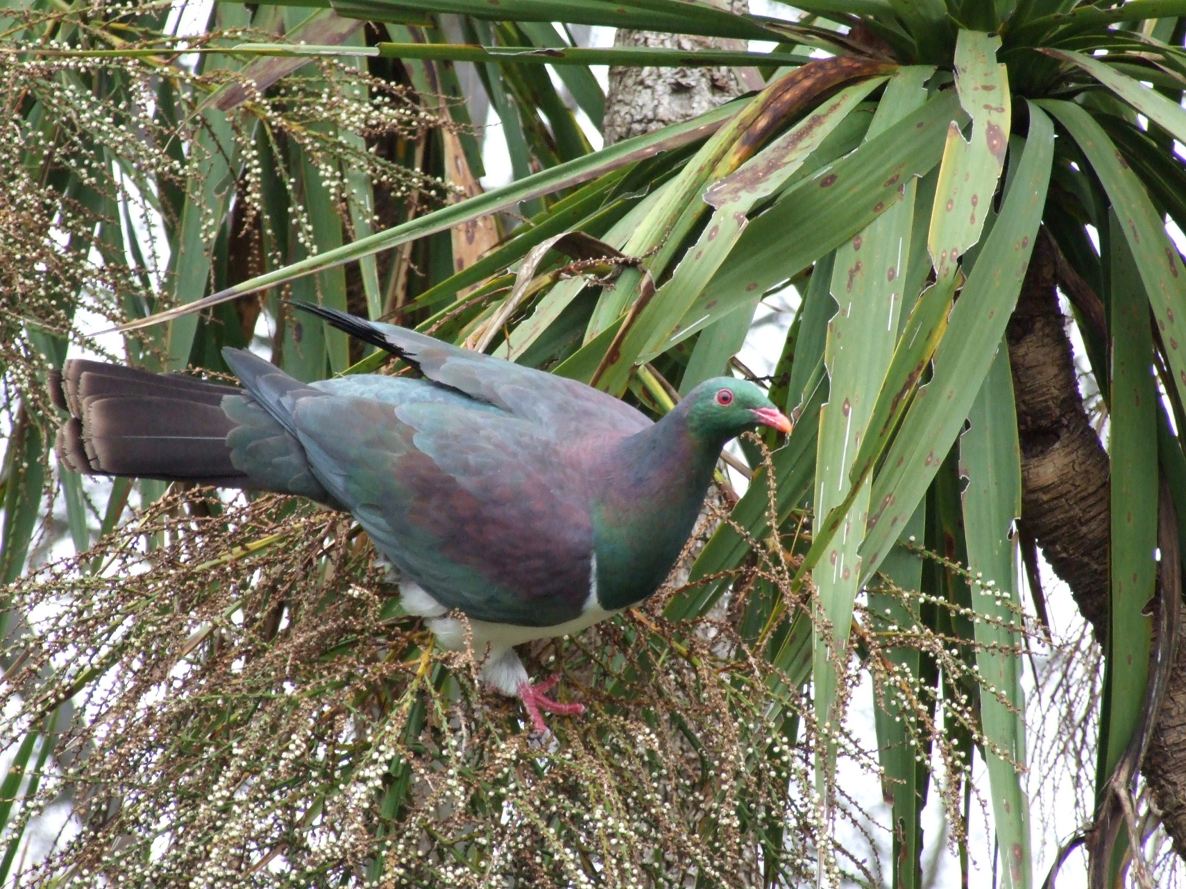 A New Zealand pigeon or Kererū (Hemiphaga novaeseelandiae) feeds on the small white seeds of a cabbage tree (Cordyline australis), Dunedin, New Zealand, August 2009. The bird is approx. 25 cm long, (chest to tail). Before it became relatively rare, the kererū was the major disperser of cabbage tree seeds. The notches on the leaf margins are damage caused by the caterpillars of the Cabbage Tree Moth (Epiphryne verriculata).